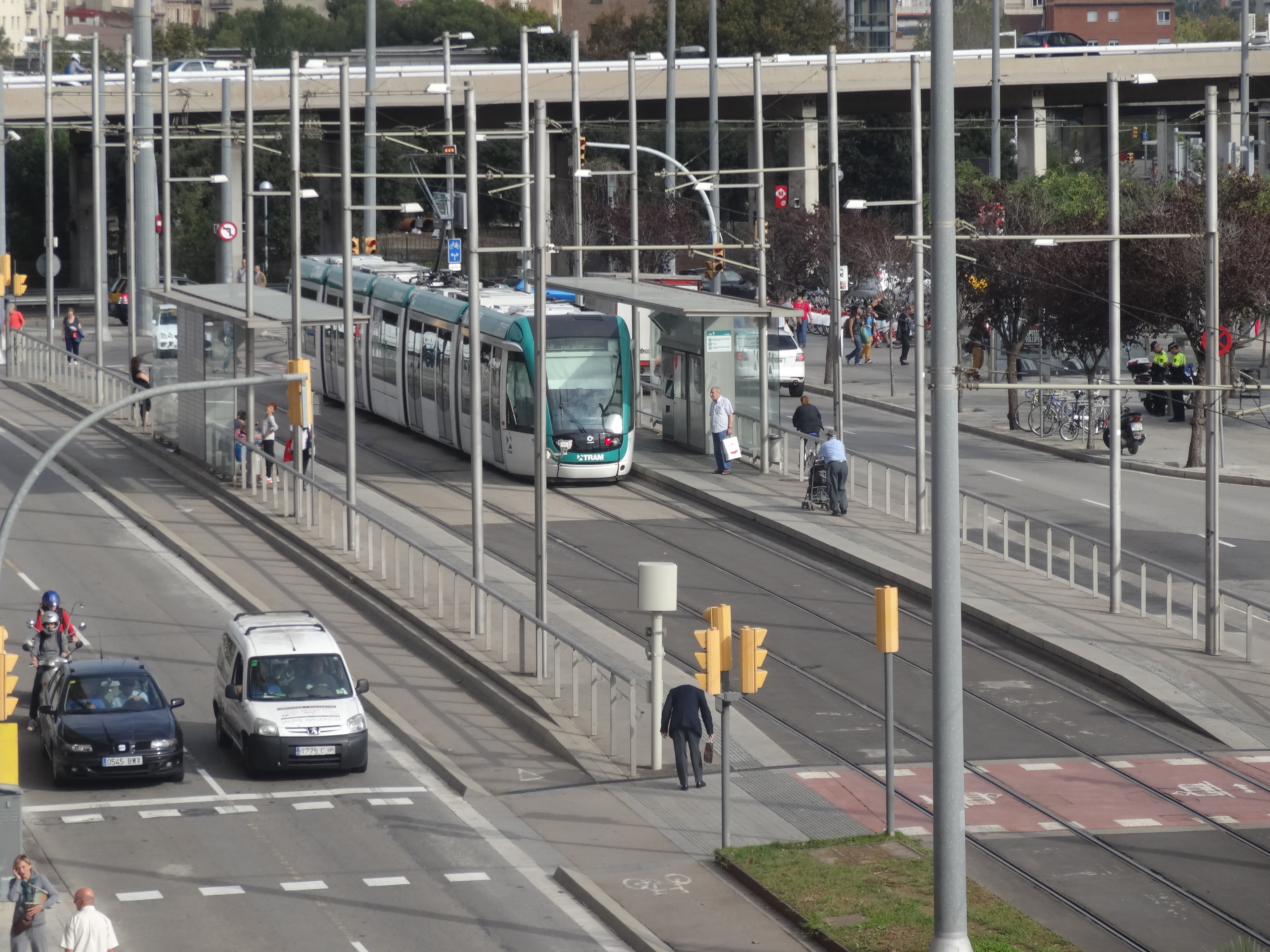 Glòries Trambesòs stop, seen from Encants Barcelona upper floor